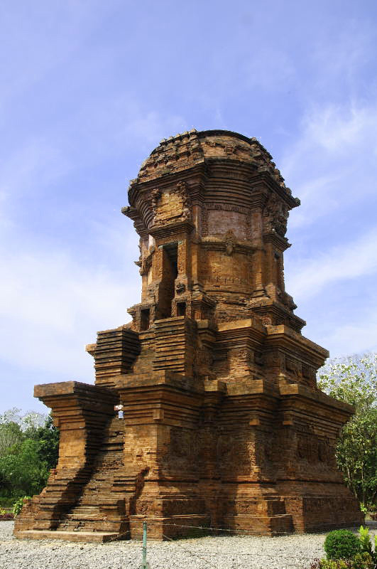 Candi Jabung, Paiton, Probolinggo, Jawa Timur